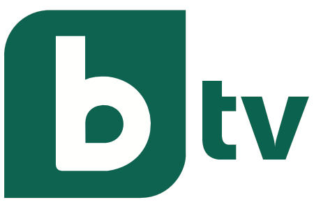 PD text logo for bTV